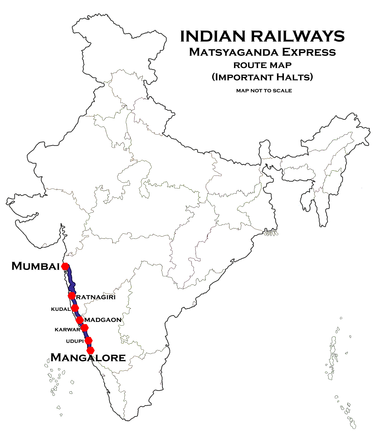 Matsyaganda Express Route map